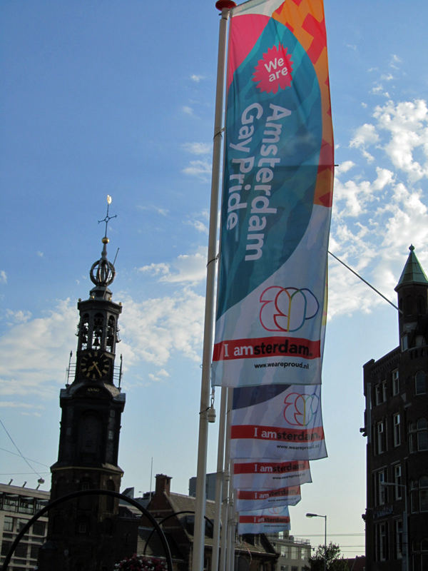 Banner showing the 2013 logo of the Amsterdam Gay Pride